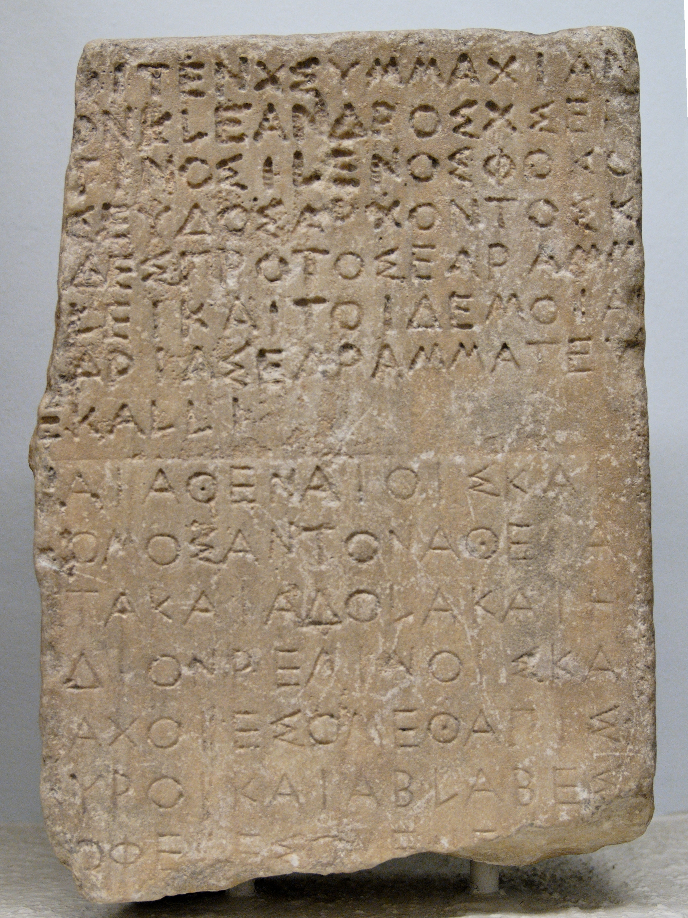 Treaty between Athens and Rhegion, probably made before 440 BC. The preambule was re-cut when the treaty was renewed under the archonship of Apseudes (433-432 BC).